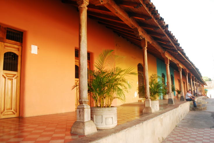 Plaza San Francisco Granada Nicaragua